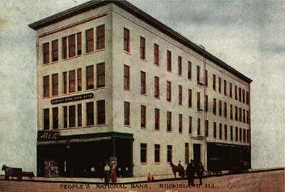 Early postcard image of People's Bank in Rock Island, Illinois. The building is listed on the National Register of Historic Places.